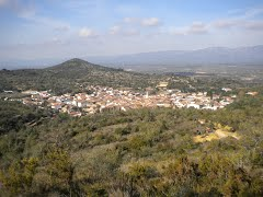 Vistes de Godall i el Coll de Vila-Llarga